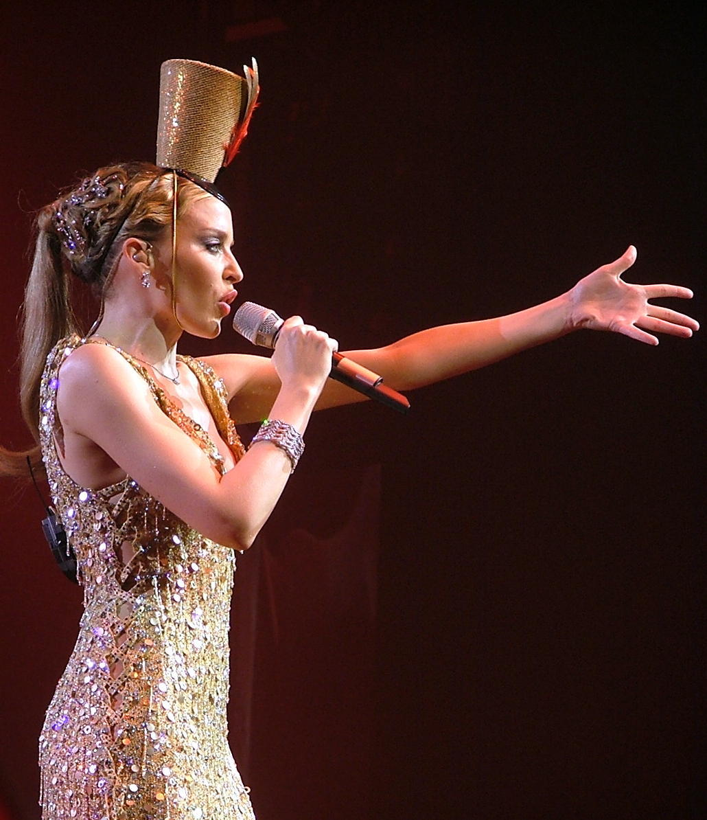 Kylie Minogue, performing in concert, Paris (France).